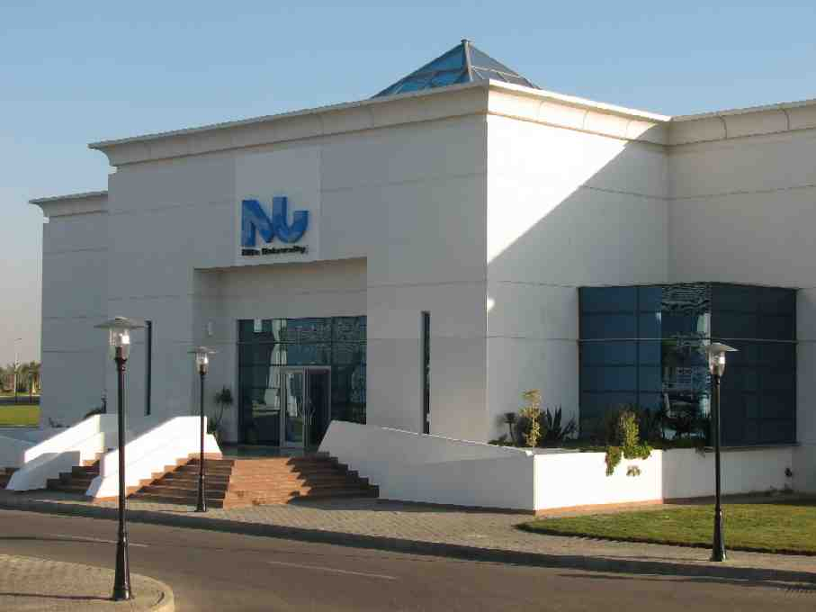 Nile University, Smart Village, Giza - EGYPT